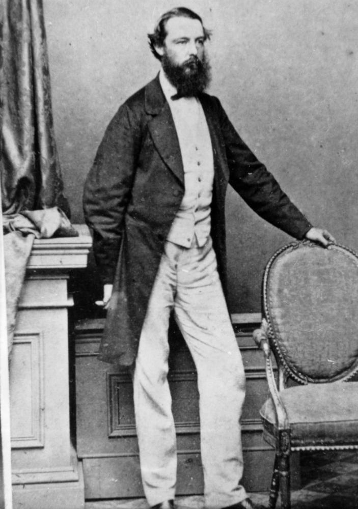 Edric Morisset Edric Norfolk Vaux Morisset was born 22 Jun 1830 on Norfolk Island. He was Commandant of Native Police in Queensland from 1853. Edric was the son of Lieutenant Colonel James Thomas Morisset and he married Eliza Lawson, daughter of William Lawson Jnr and Caroline Icely on 3 Jul 1860. Edric was also superintendent of Police at Bathurst, Maitland and Goulburn, New South Wales. He died in Goulburn 26 Aug 1887.